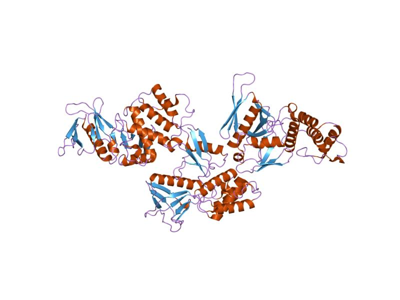 Cartoon representation of the molecular structure of protein registered with 1gg3 code.